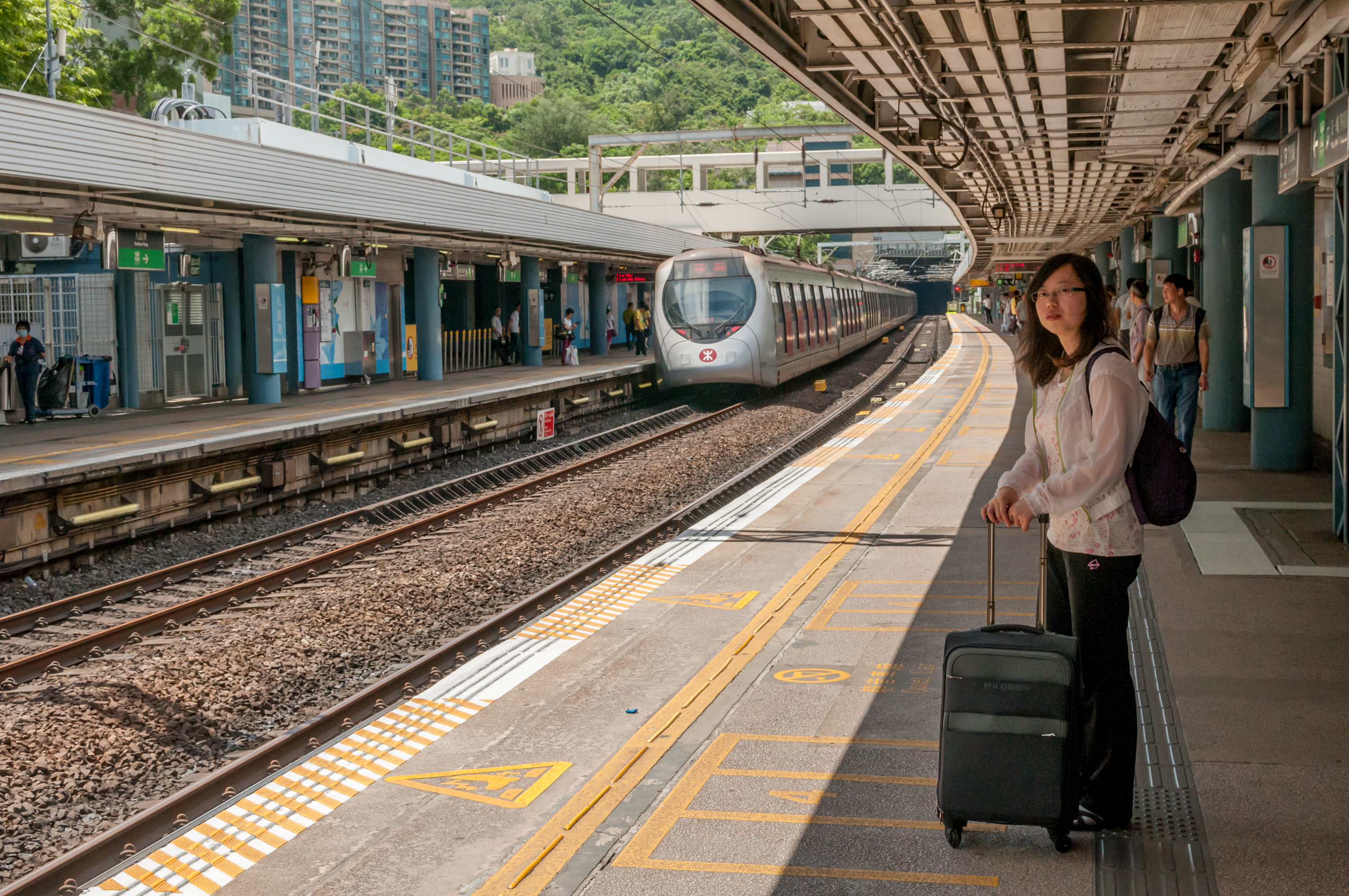 Metro Station Hong Kong